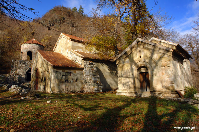 Rkoni monastery in Kaspi municipality, Georgia